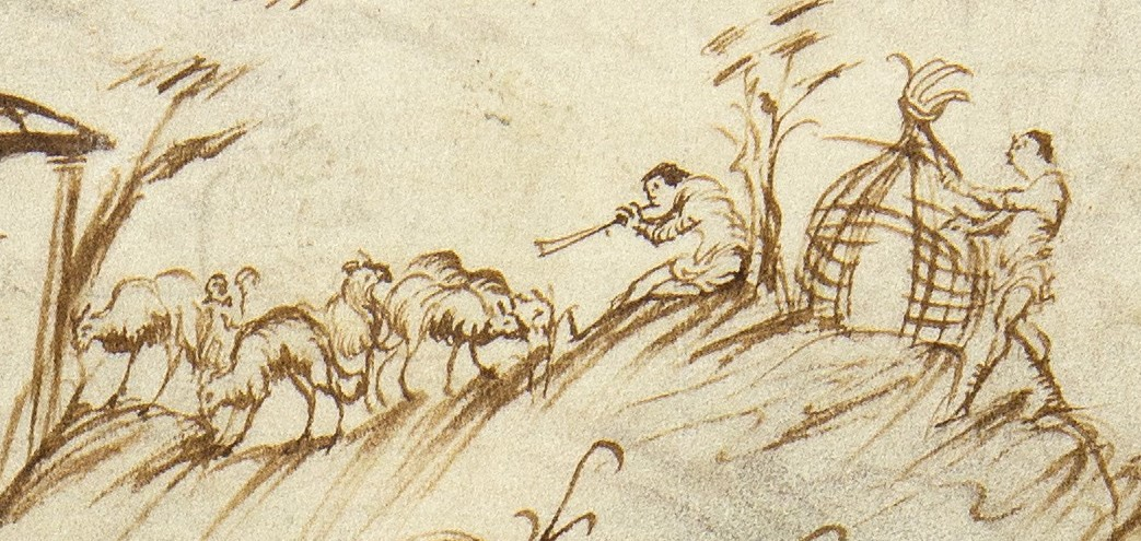 Image from the Utrecht Psalter of a shepherd blowing his horn to his flock of sheep.